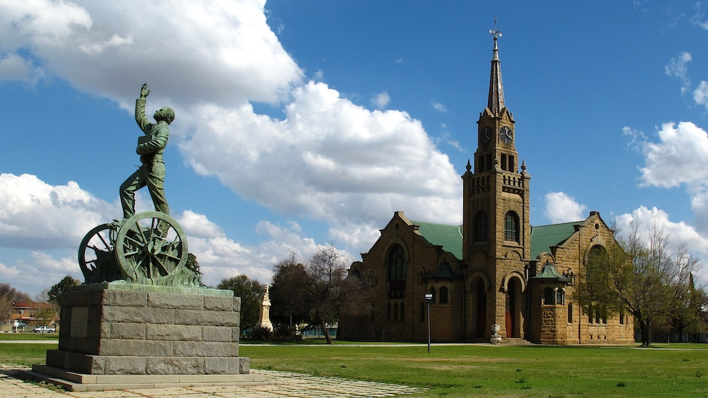 NG Moedergemeente in Kroonstad This media shows a South African Protected Site with SAHRA file reference 9/2/324/0016.